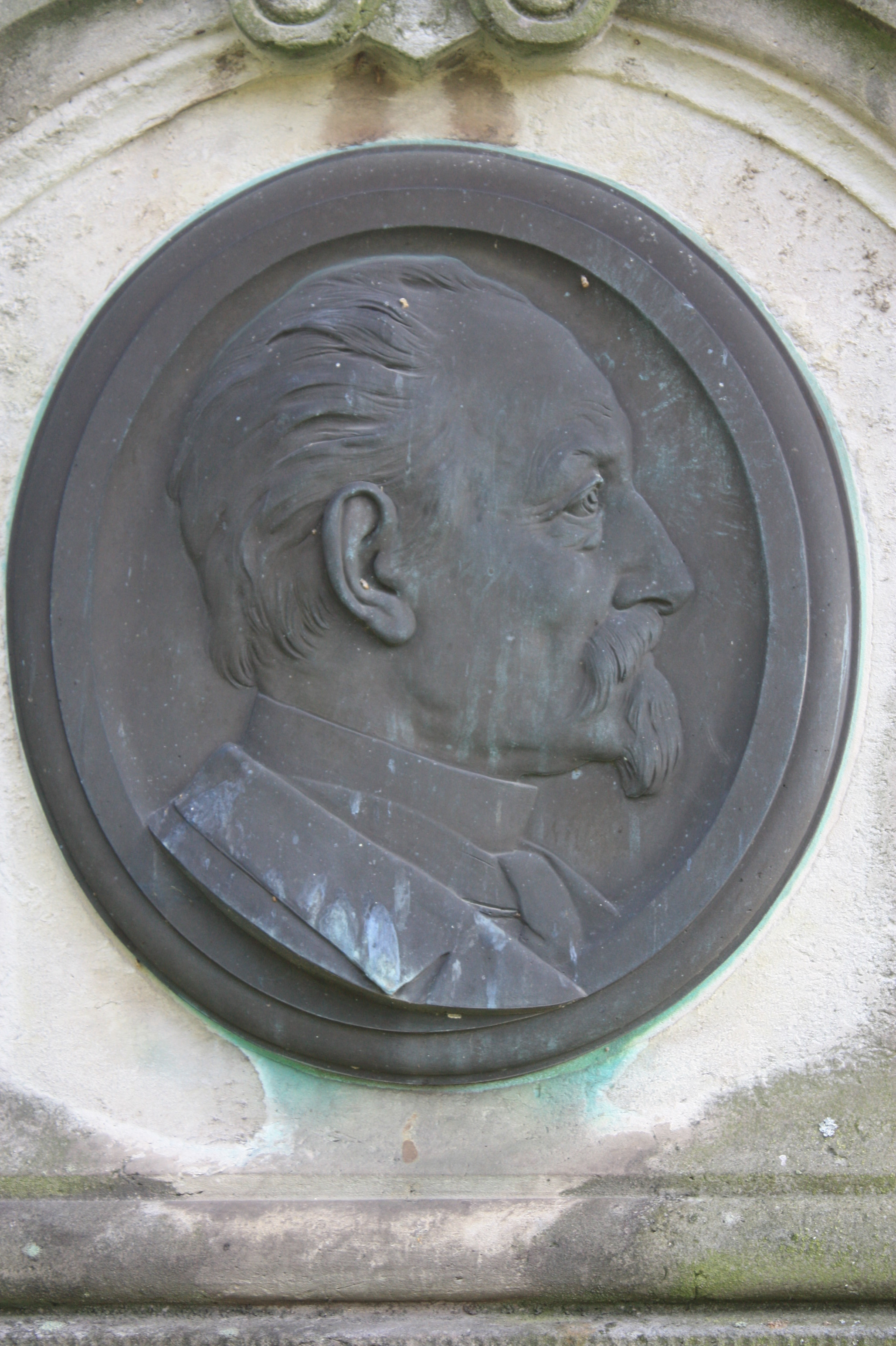 Medallion head on the grave of Julius Scholtz, Trinitatisfriedhof, Dresden